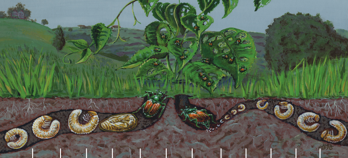 Illustration of the life cycle of the Japanese beetle (Popillia japonica)